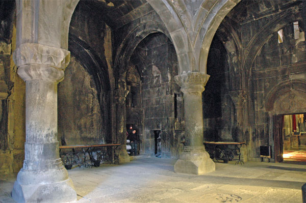 Geghard monastery. Gavit, Armenia